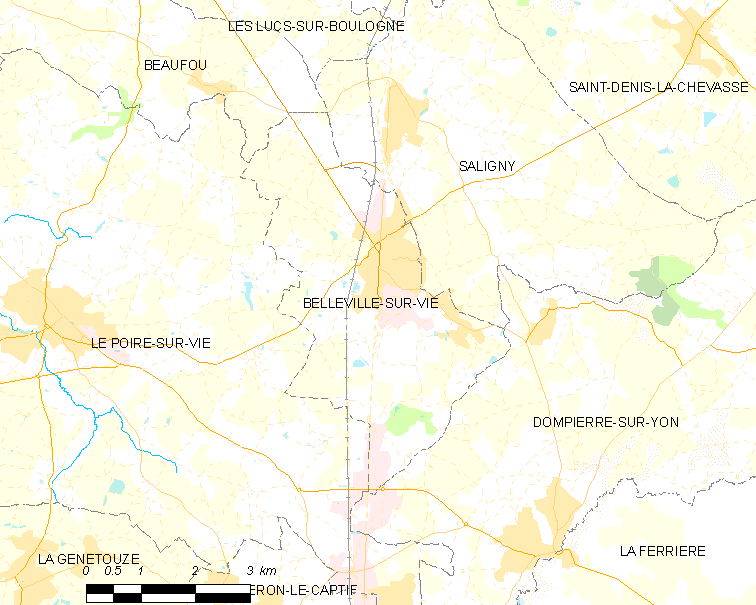 Map of French municipality Belleville-sur-Vie